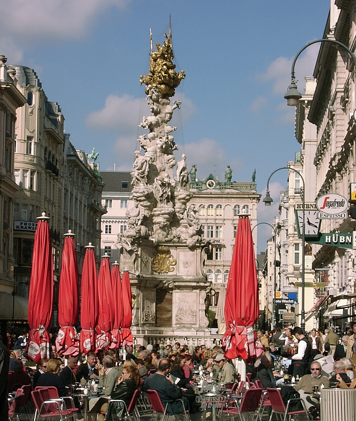 Sidewalk cafe in front of the Pestsäule (Plague column) on Graben street in Vienna, Austria